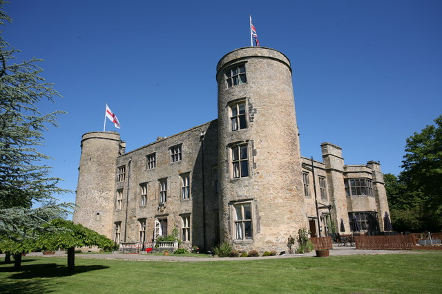 Walworth Castle Hotel, near to Walworth, Darlington, Great Britain